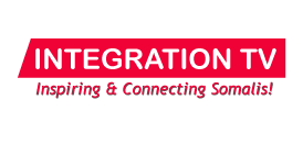 Logo of Integration TV.